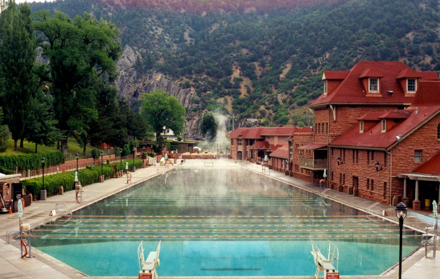 Spring-fed pool at Glenwood Springs, Colorado.